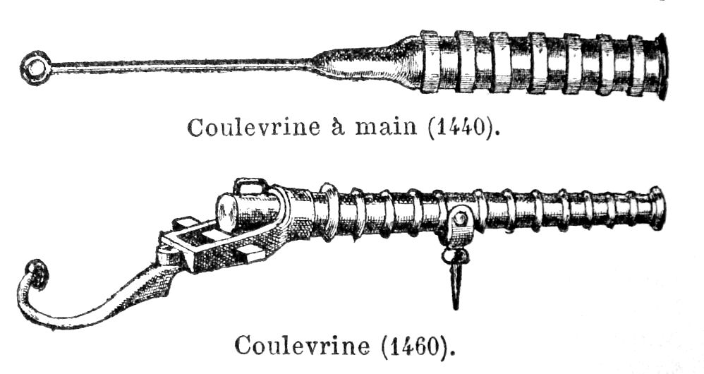 Early cuverins